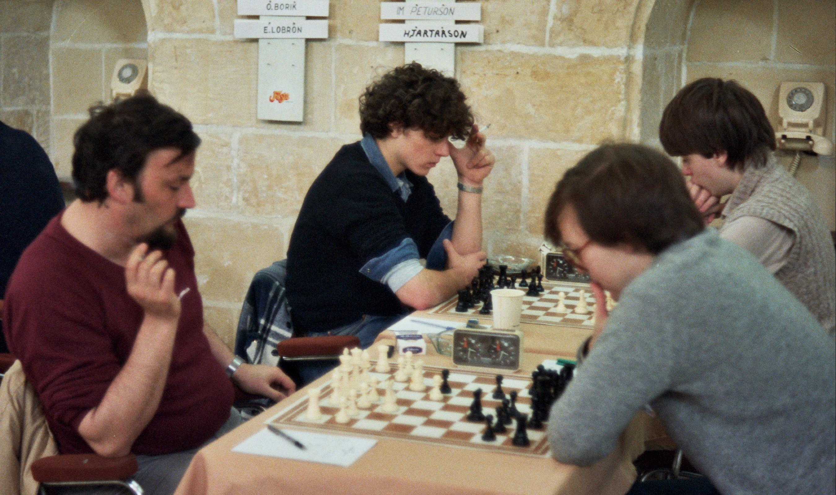 Germany - Iceland (Borik - Petursson, Lobron - Hjartarson) at the Chess Olympiad 1980 in Malta, Photographer Gerhard Hund.